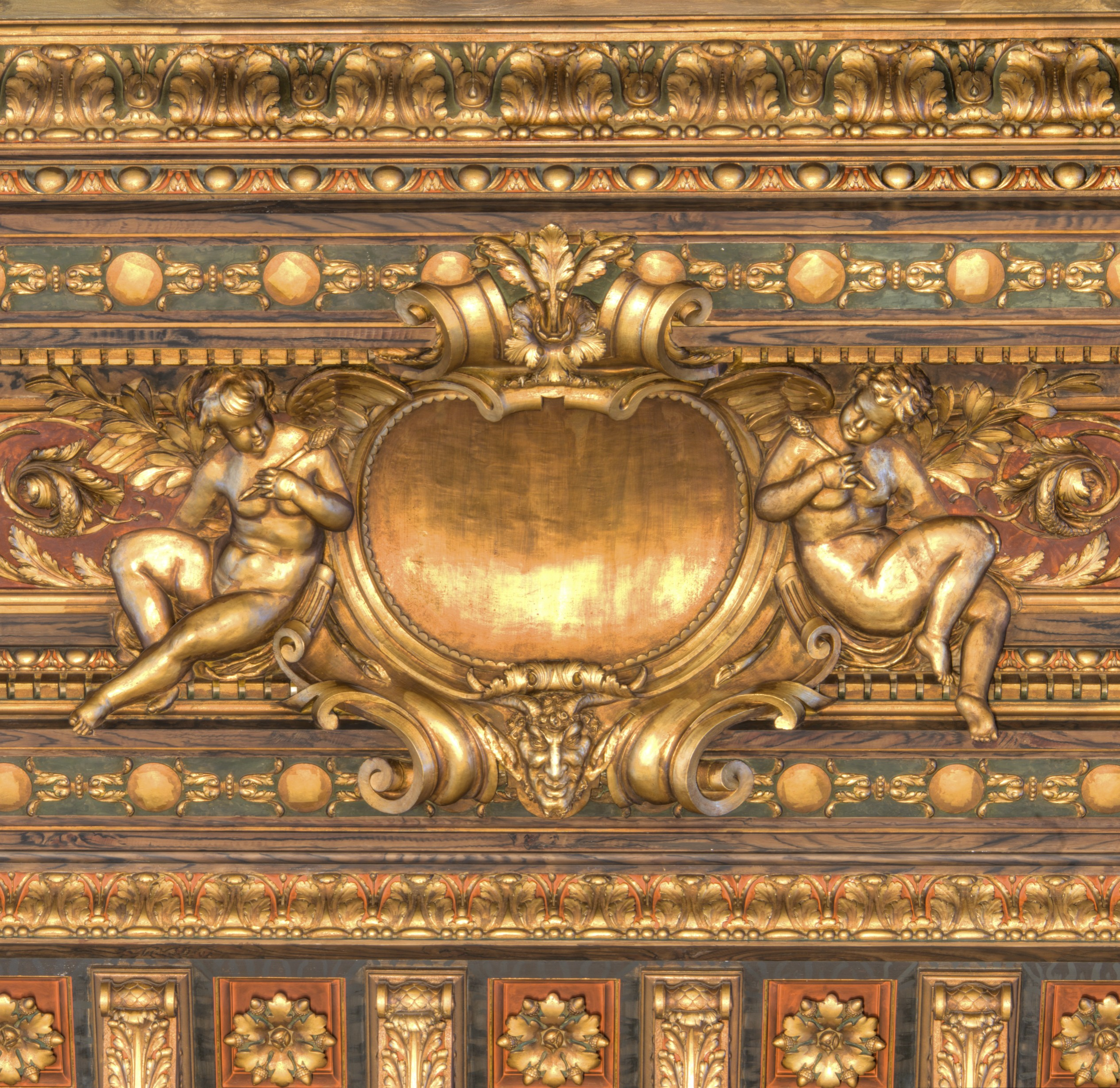 On the side of the sky mural are two pairs of Cherub medallions.